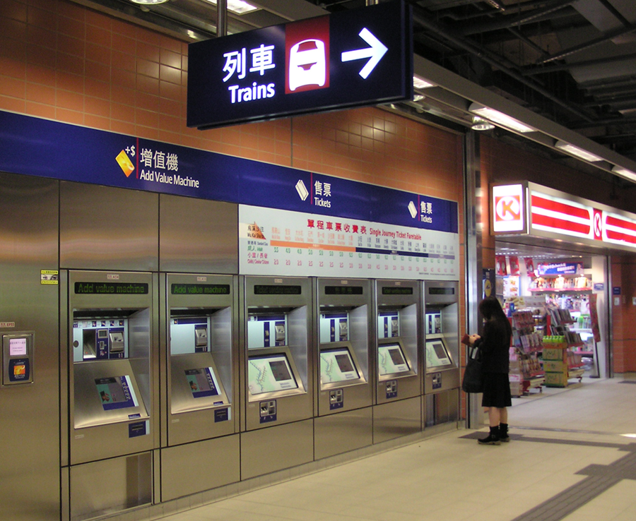 This is the Wu Kai Sha Station of the KCR Ma On Shan Rail. The first machine on the left is the "add-value machine" that is used to top-up an "Octopus Card". The photograph was taken by Alanmak in December, 2005.